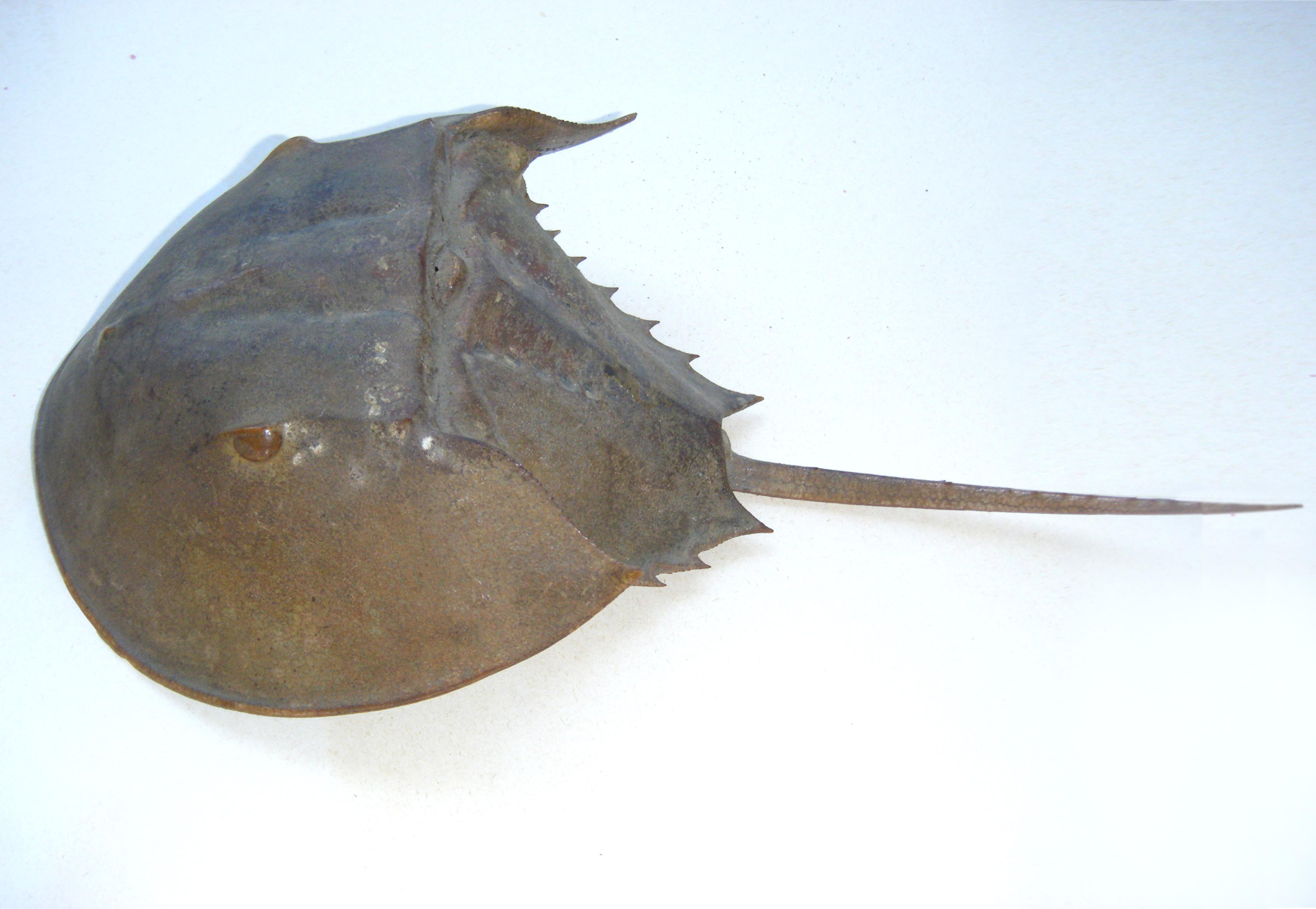 Horseshoe crab